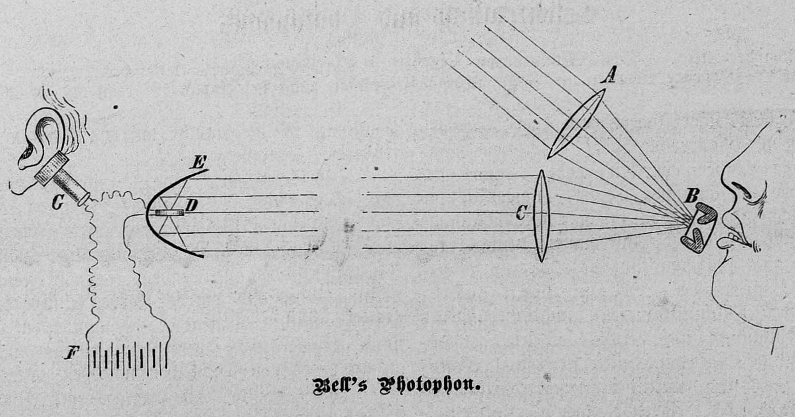 caption: "Bell’s Photophon."